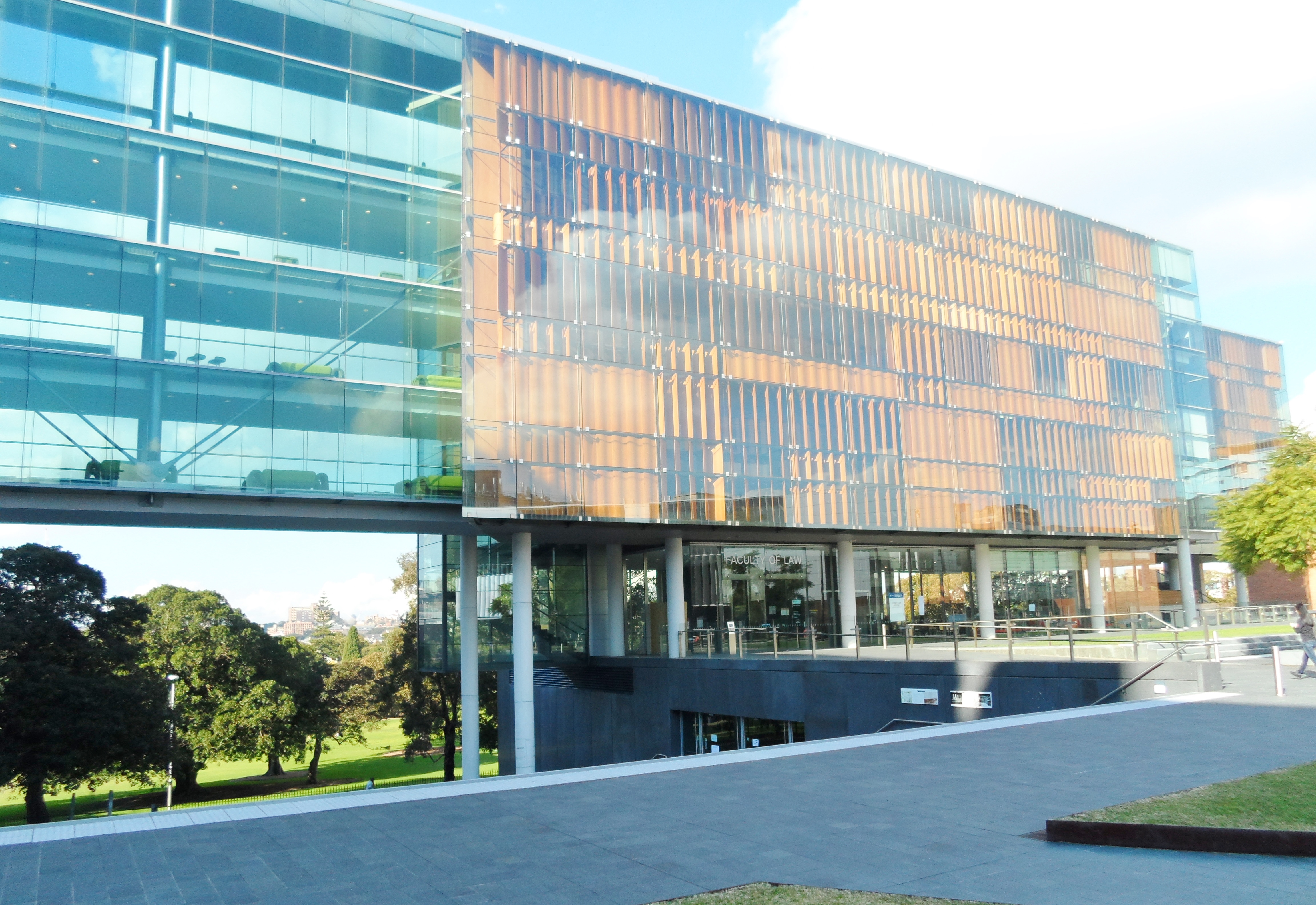 The New Law Building at the The University of Sydney in 2013, home of the Faculty of Law.